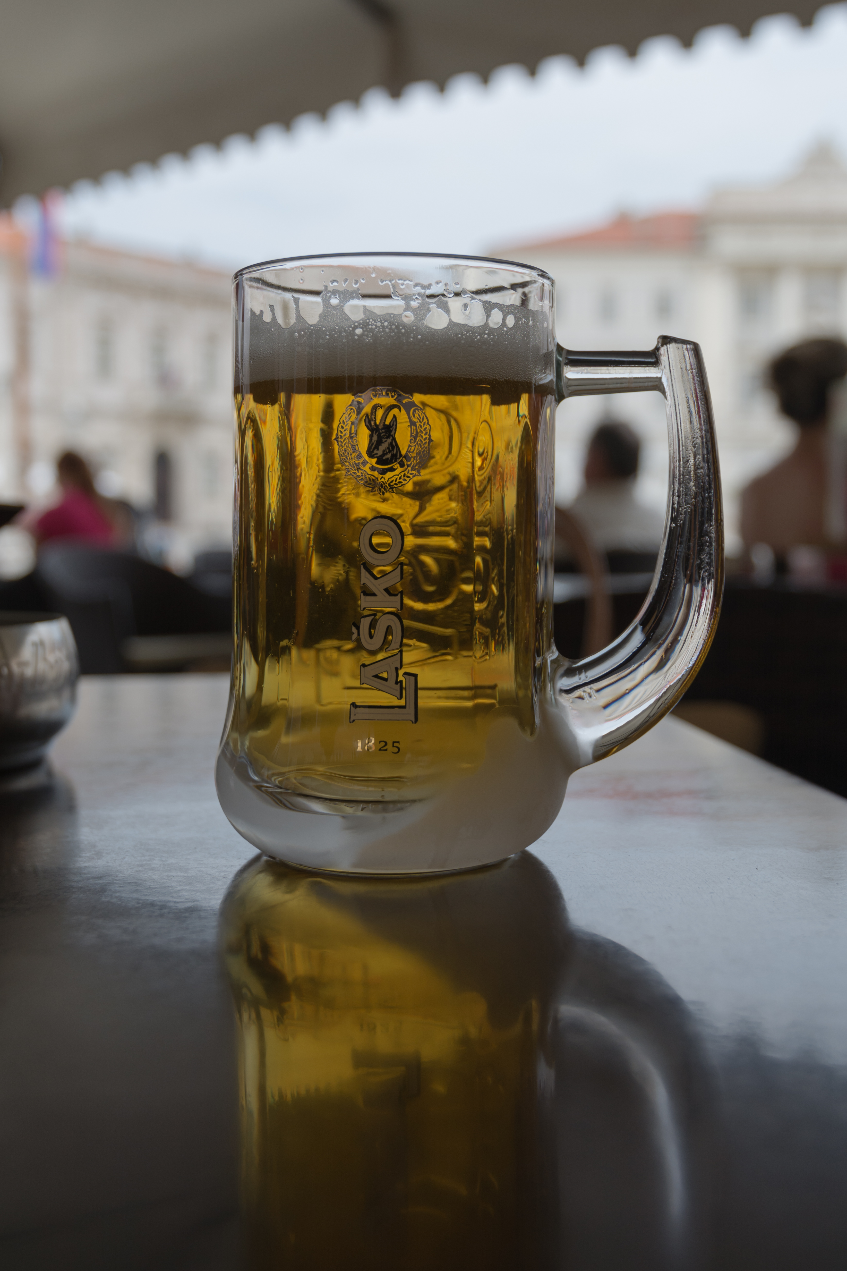 This beer, a Laško Zlatorog, was served in an ice cold glass.